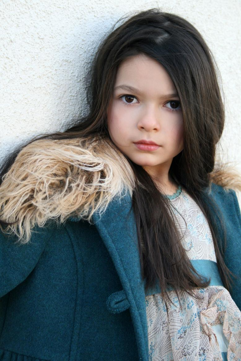 Actress Nikki Hahn, age 9